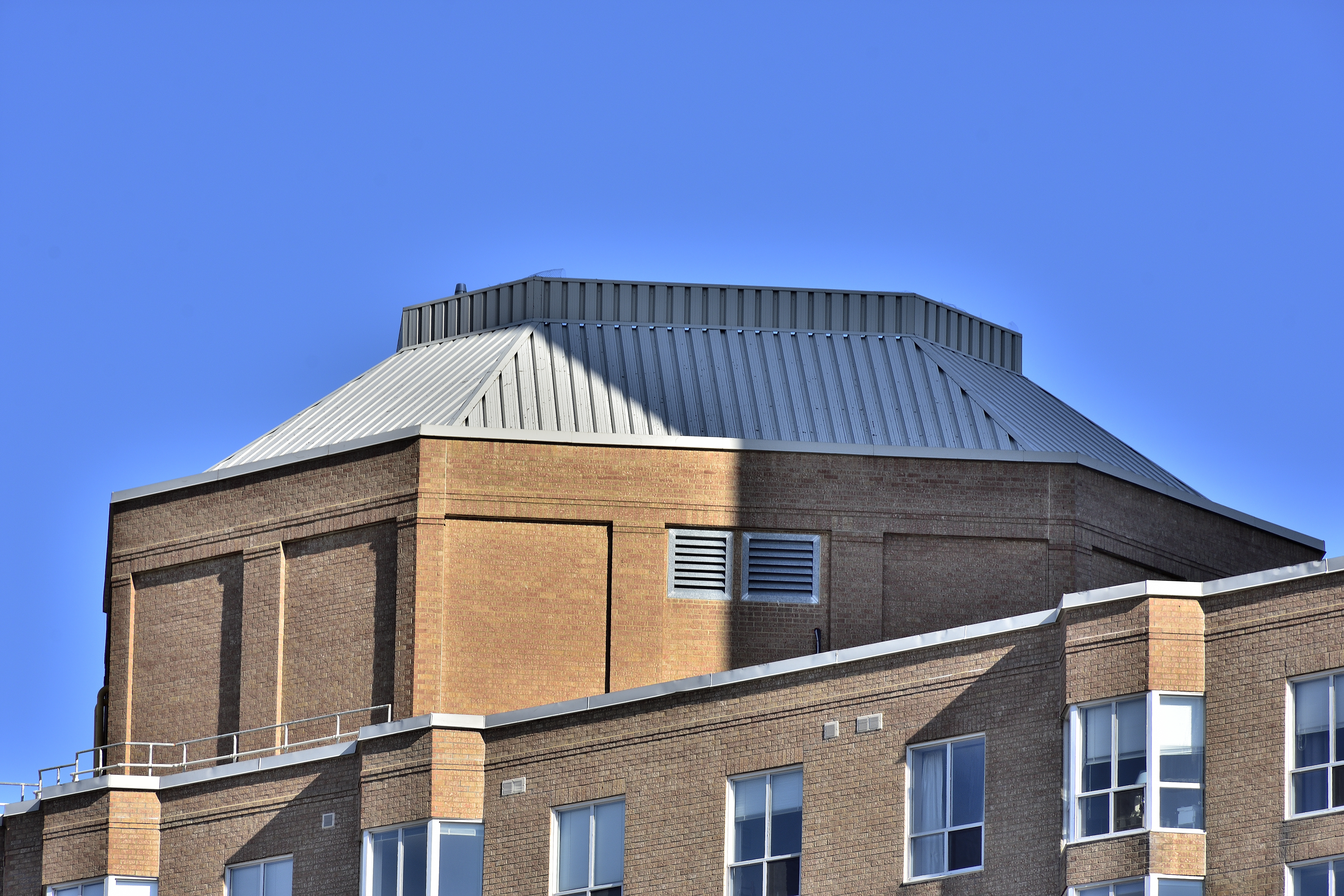 The mechanical penthouse (top, box shaped section with vent) housing elevator equipment, boilers, and cooling tower for high rise condominium in Toronto, ON.